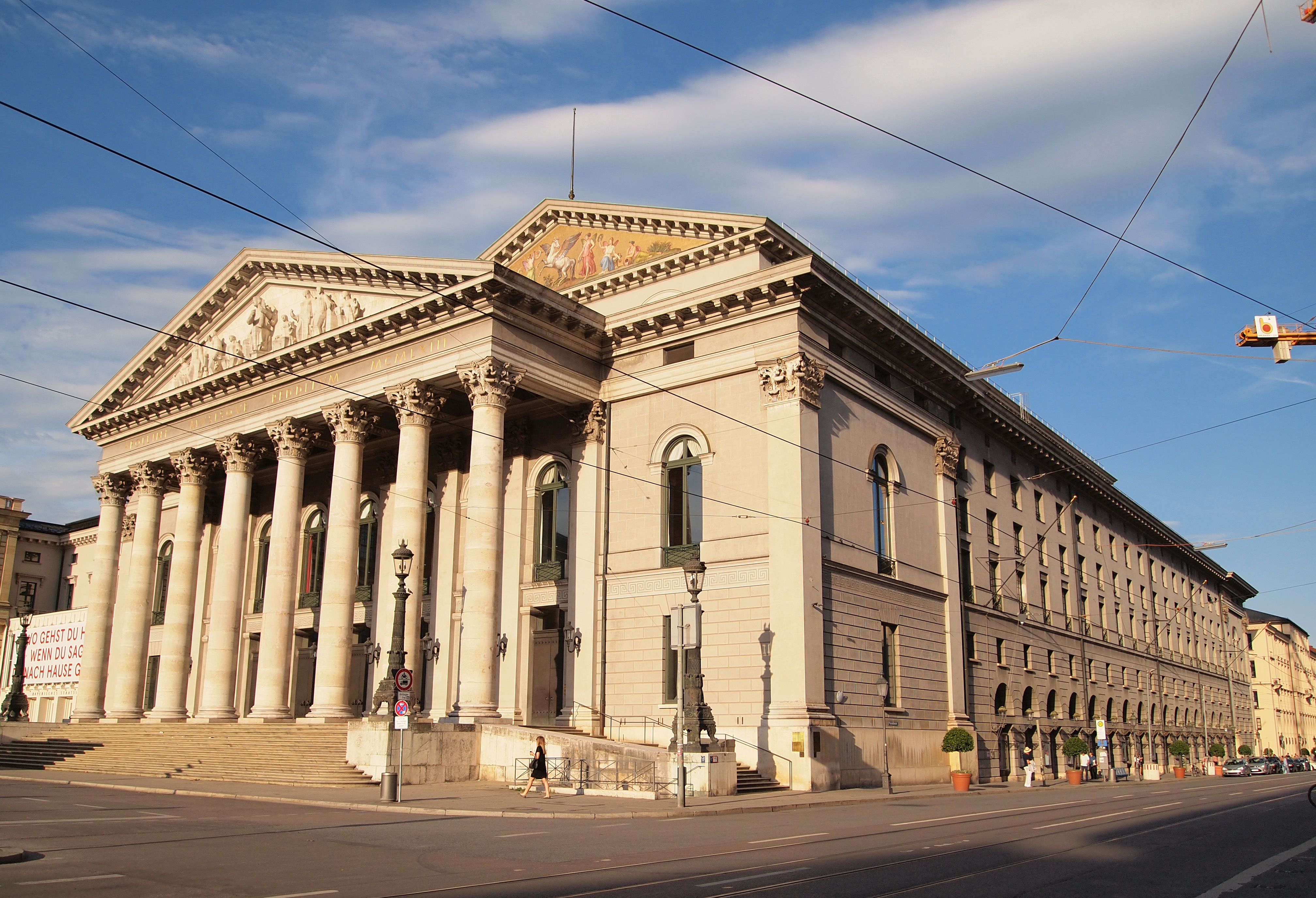 Nationaltheater München. This photograph was taken with an Olympus E-PL1